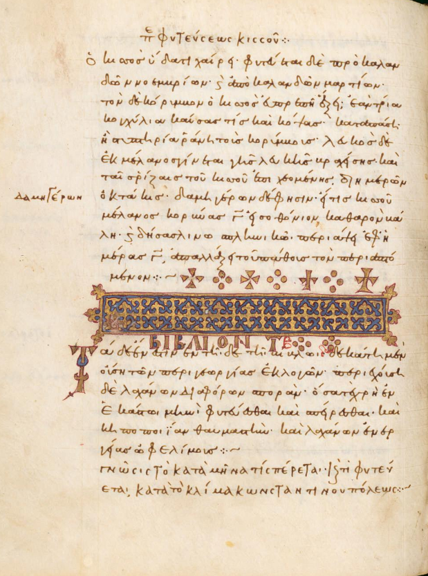 Geoponica Gardening calendar MS.Laur.Plut.59.32 f.171v